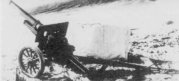 Type 96 15cm Howitzer Introduced Year : 1937 Caliber : 149.1 mm Barrel Length : 3.523 m EL Angle of Fire : -5 to +65 Degrees AZ Angle of Fire : 30 Degrees Shell Weight : 31.3 Kg Muzzle Velocity : 540 m/sec Weight : 4.14 ton Range : 11,900 m Production Qty : 440 Type 96 is the modern Howitzer drawn by a tractor. It was first used in the Sino-Japanese War and was hightly praised from the users. Type 96 was used as the main howitzer of the IJA heavy artillery units until the end of WWII.